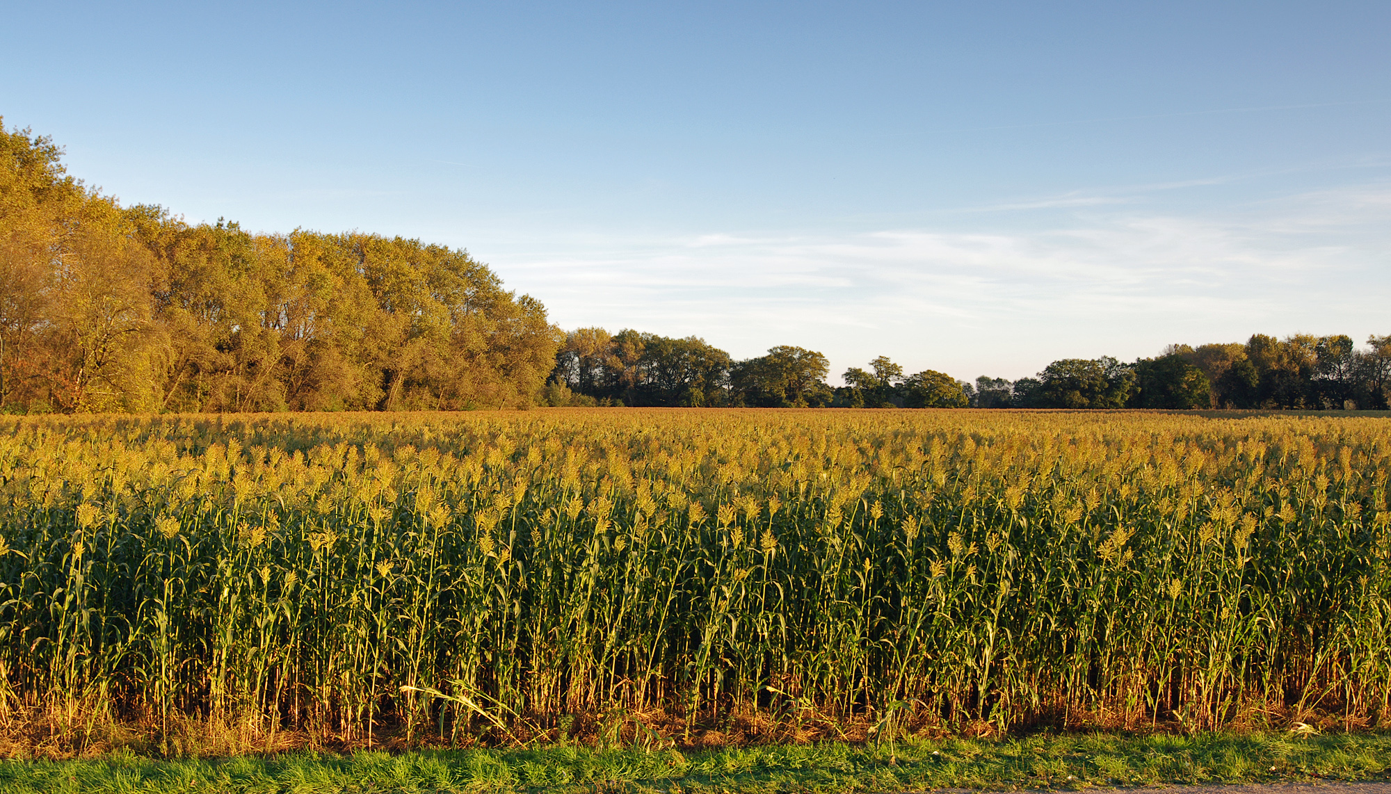 More than 5 hectare field of Sorghum, probably Sorghum bicolor resp. a closely related agricultural hybrid, in the evening sun in autumn. Obviously, the grass has been cultivated experimentally as renewable organic material for fermentation in biogas plants.